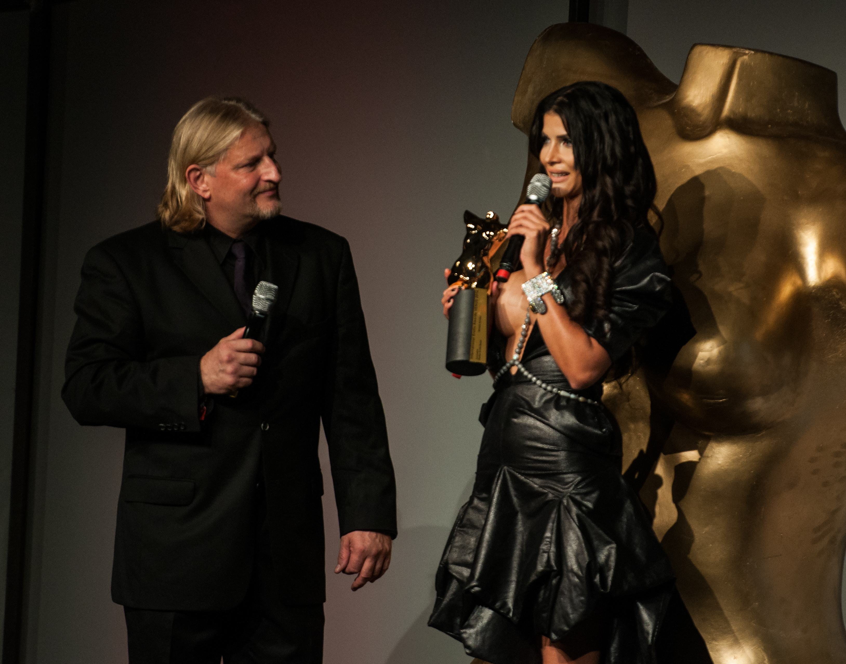 Micaela Schäfer at the ceremony of the Venus Awards 2014, Berlin